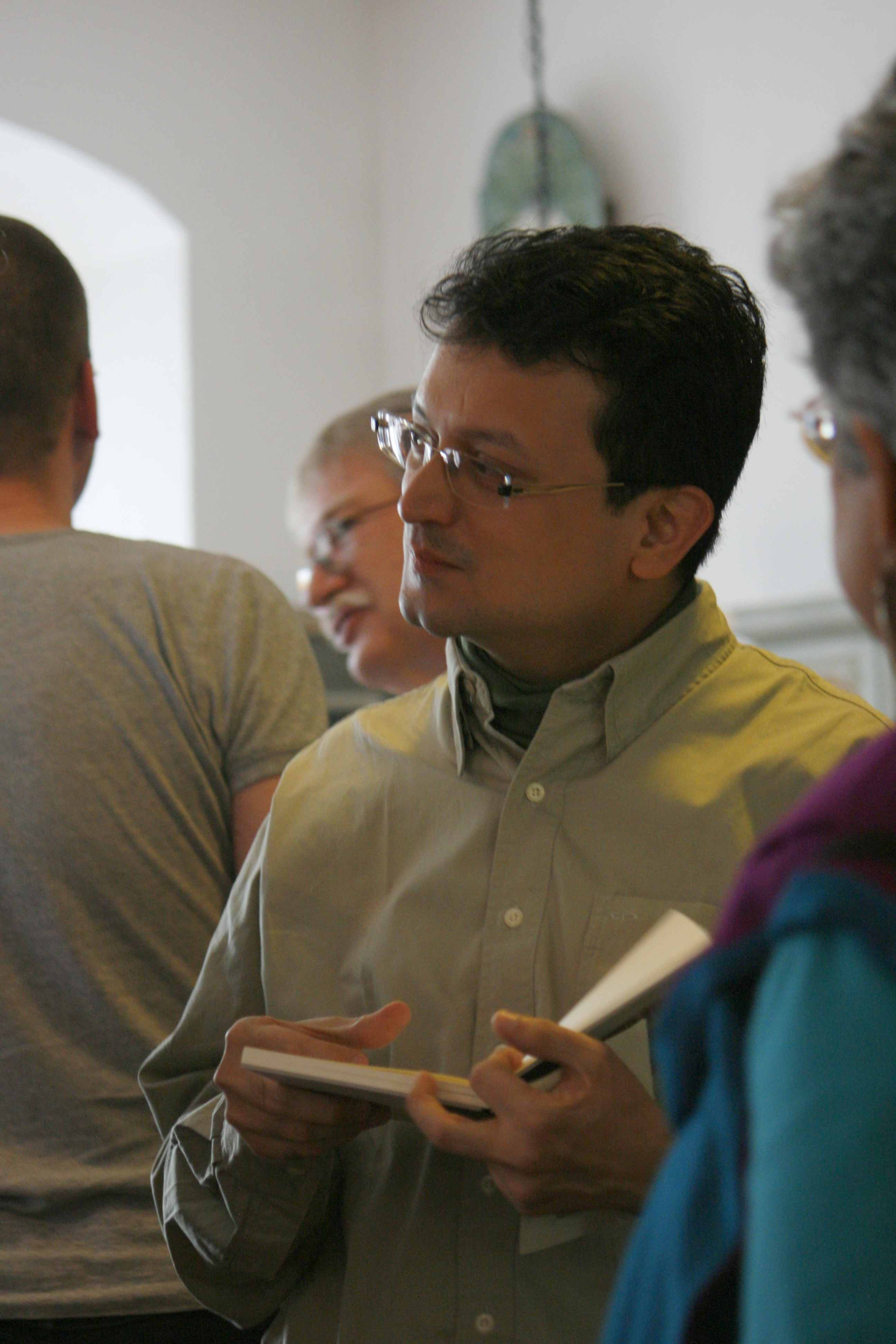 Ranjit Hoskoté